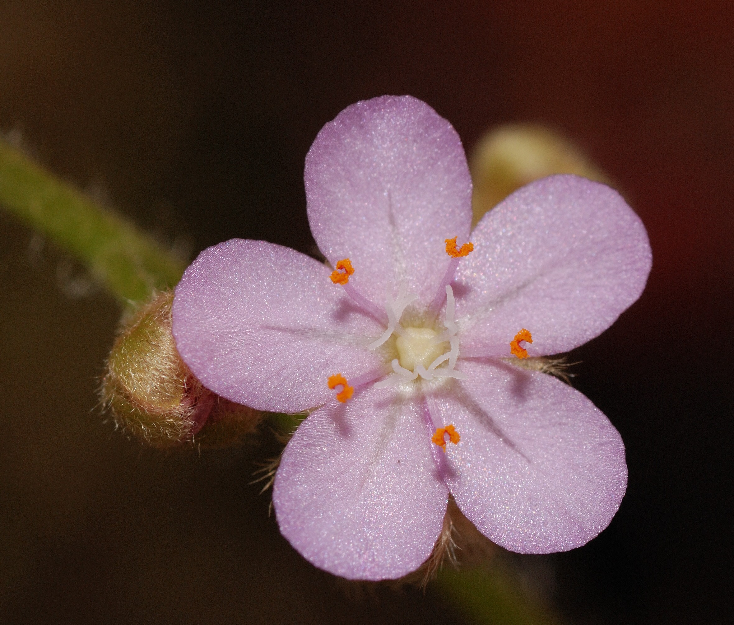 flower of Drosera petiolaris